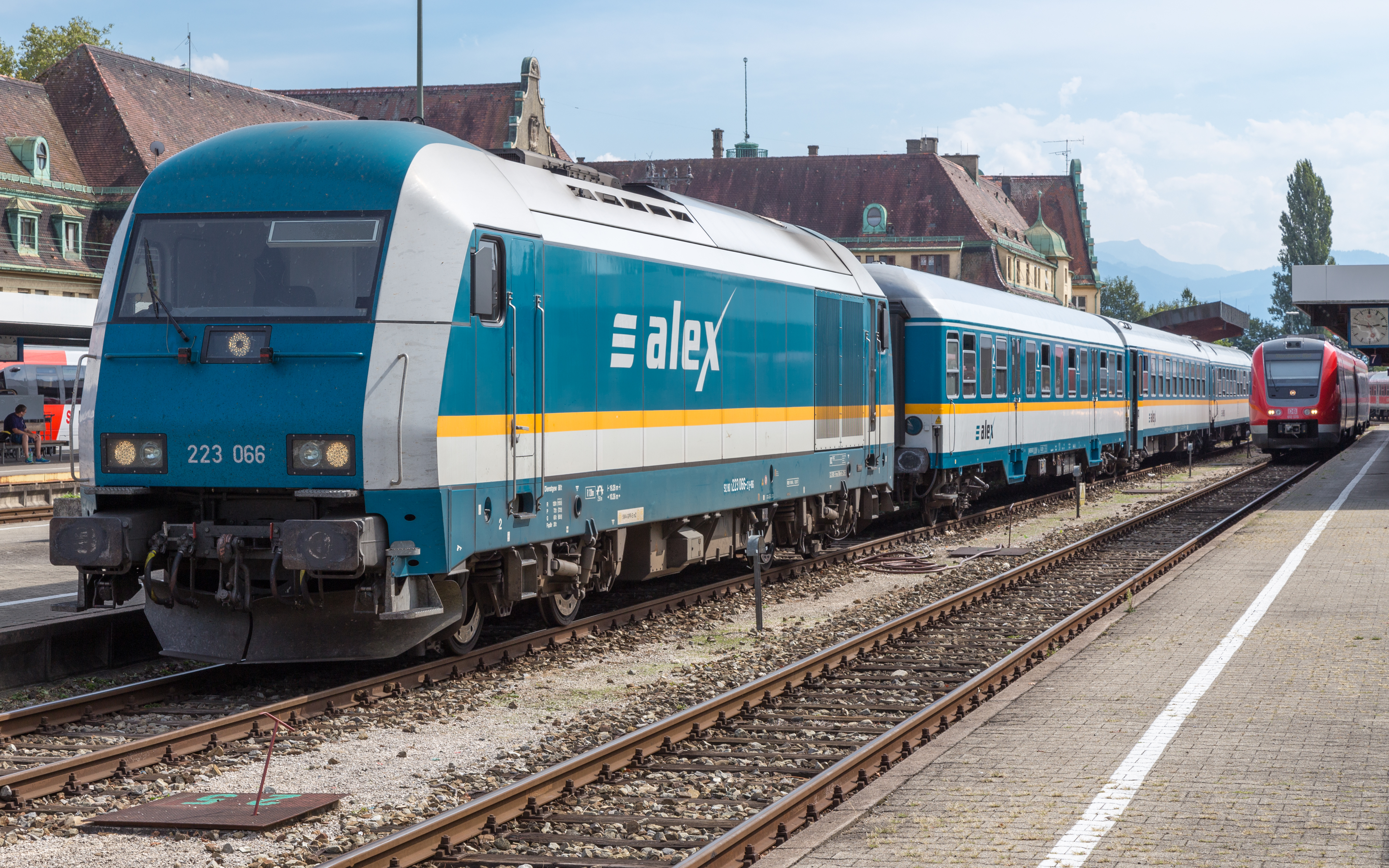 Train "ALEX" starts in Lindau (Lake Constance) to Munich and the train DBAG class 612 (right) has Nuremberg as destination.